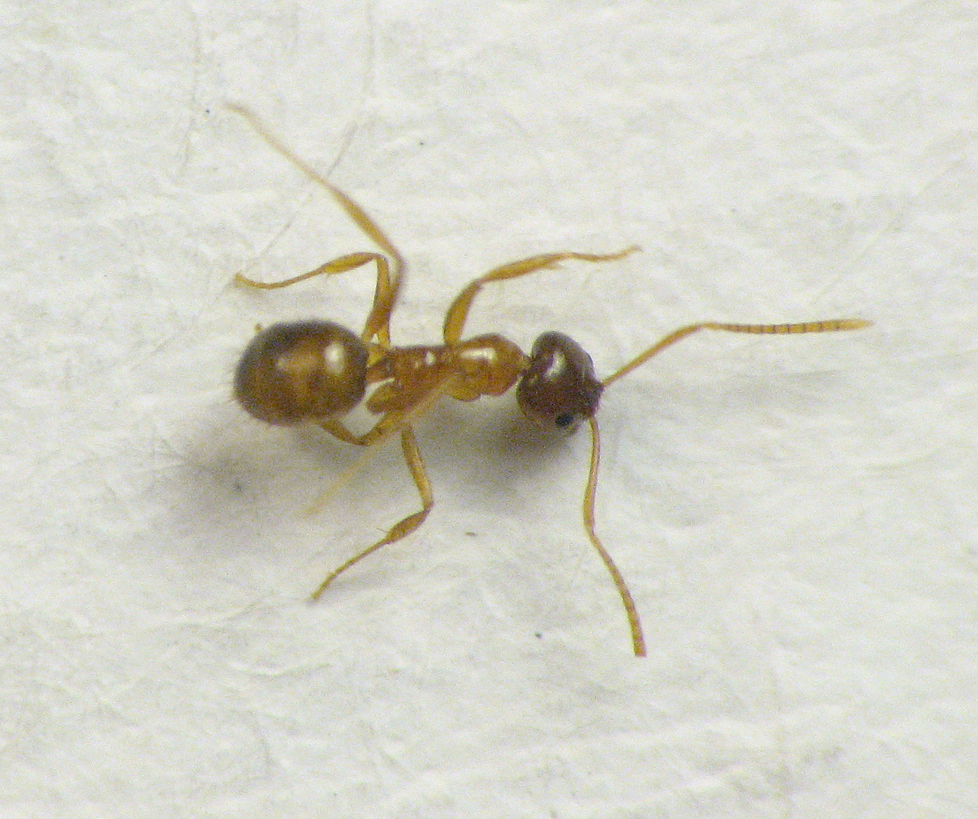 Crazy ant, Nylanderia flavipes, visiting extrafloral nectaries of Senna, possibly Senna marilandica. Size: 2 mm. Pennypack Ecological Restoration Trust, Montgomery County, Pennsylvania, USA. 40.1420° N, 75.0830° W.